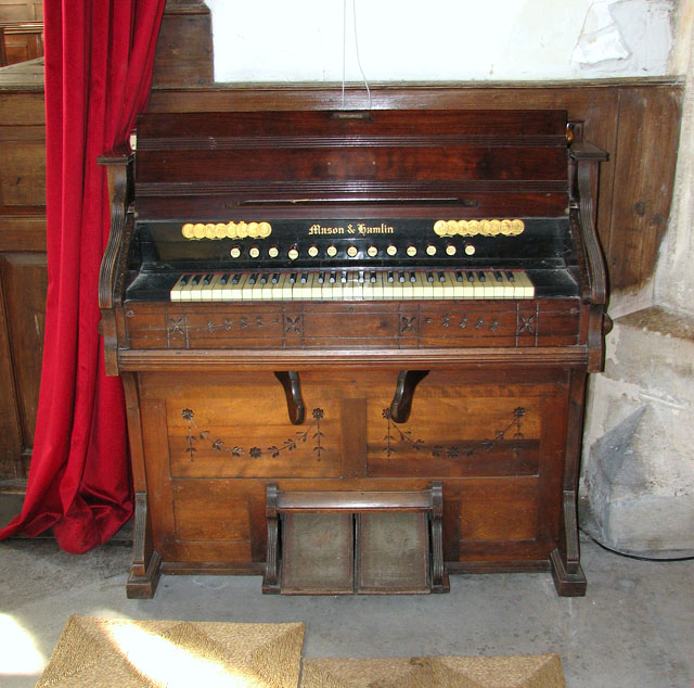 The church of St Mary in East Walton - harmonium The harmonium is by Mason and Hamlin and has the serial number 200219. St Mary's church has a round tower that is believed to date from Norman times. The building as we see it today, including the sagging south porch that leans towards the west, dates from the 14th century. The interior was extensively restored in the 18th century but has retained the C14 font. The three-decker pulpit and stalls were installed in the 18th century, and the priest door in the chancel is topped by a gable that has a six-leaved roundel with a rose at its centre. Adjoining the church in the north is a site where an abbey once stood. A ruined chapel is all that remains.